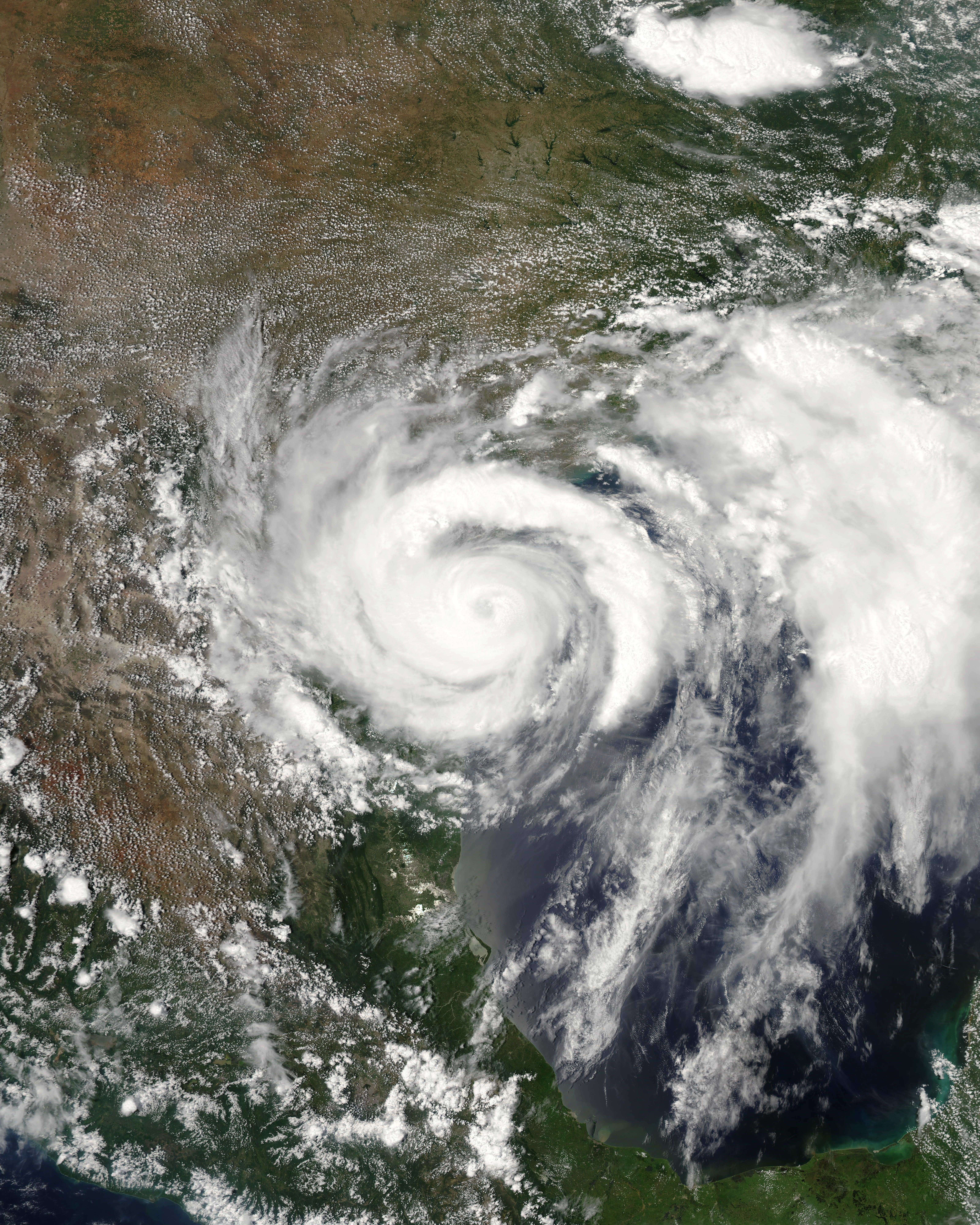 Hurricane Dolly making landfall on South Padre Island on July 23, 2008